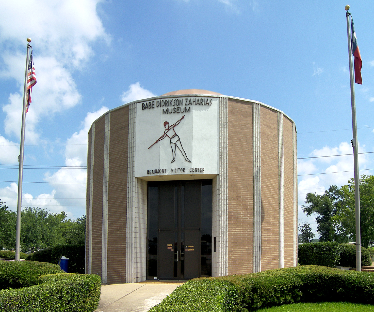 The Babe Didrikson Zaharias Museum located in Beaumont, Texas, United States.